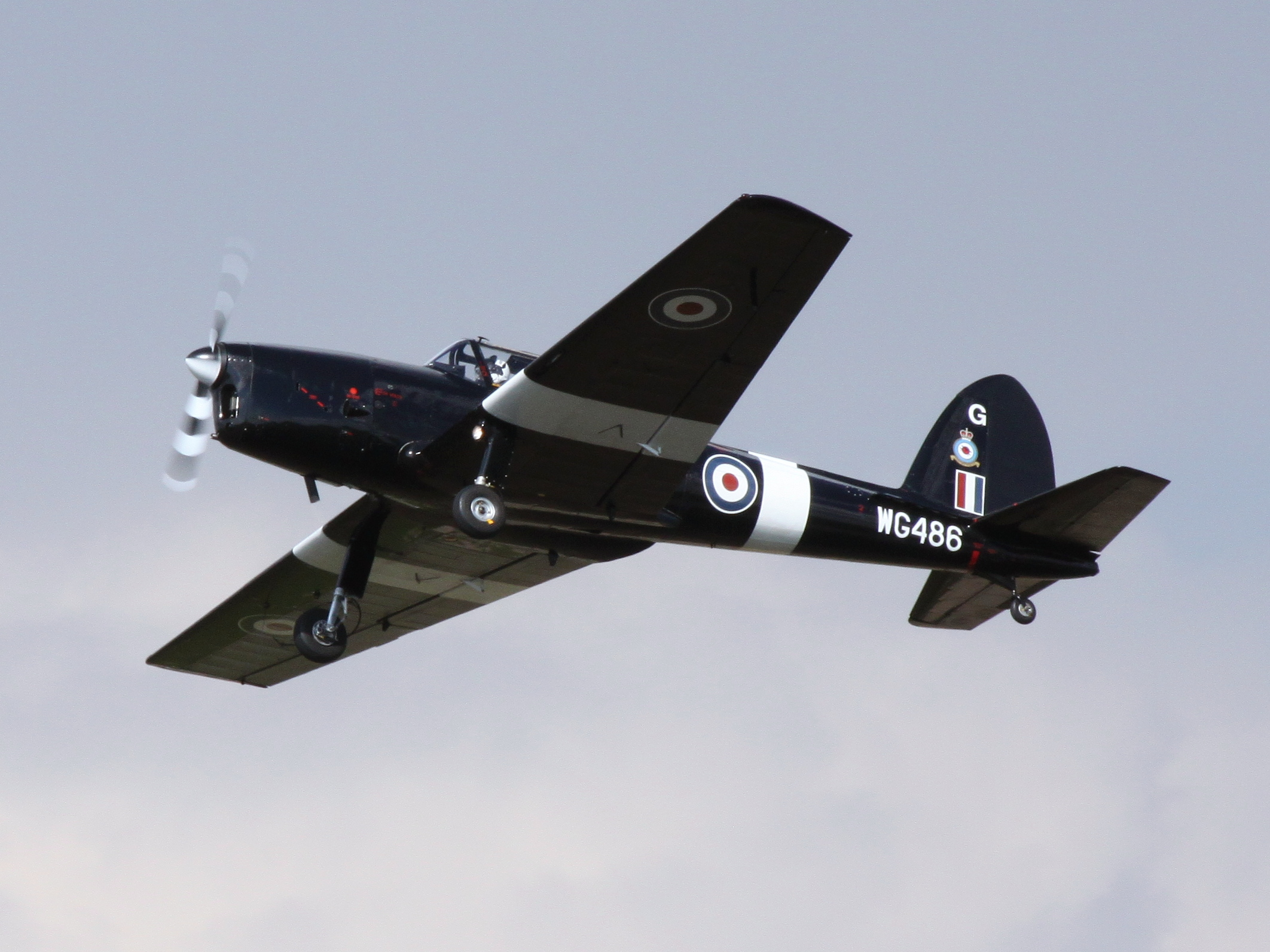 Chipmunk for tail dragger training, Battle of Britain Memorial Flight at RAF Coningsby